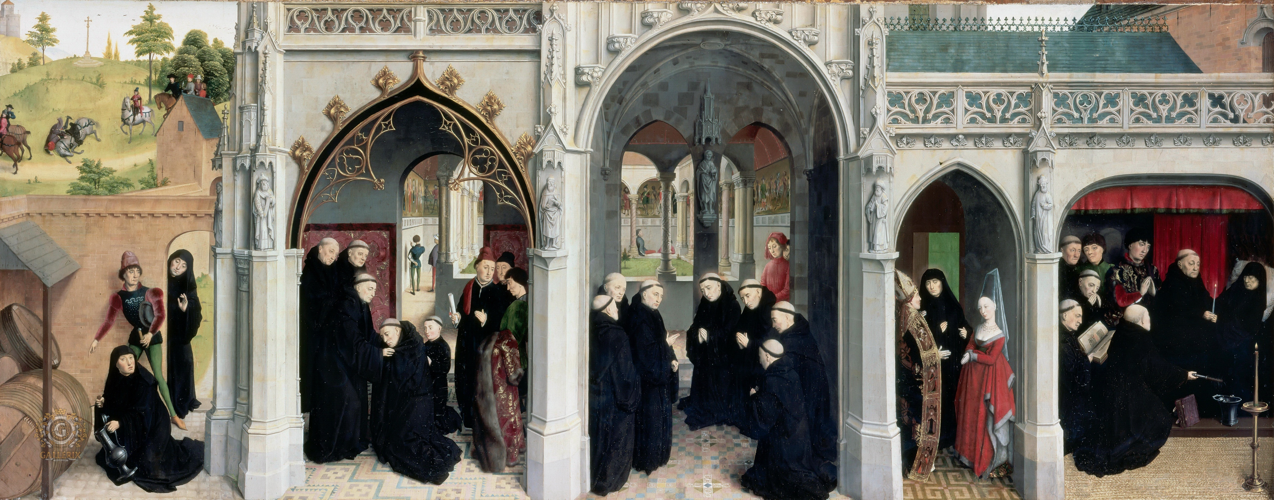 Simon Marmion, Saint Bertin Altarpiece, ca 1459, Right wing, side A, Gemäldegalerie, Berlin